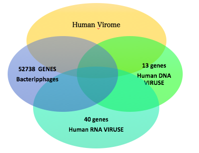 edit the human virome component